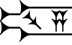 Cuneiform sign. Cuneiform for as, aș (dot s), and az. In Amarna lettters, EA 365 (Corvee workers), as, used to name: Harvesters, pluckers-(from, masû, to wash), "Man (plural)- ma as sà (plural," again), (6 cuneiform characters, total).